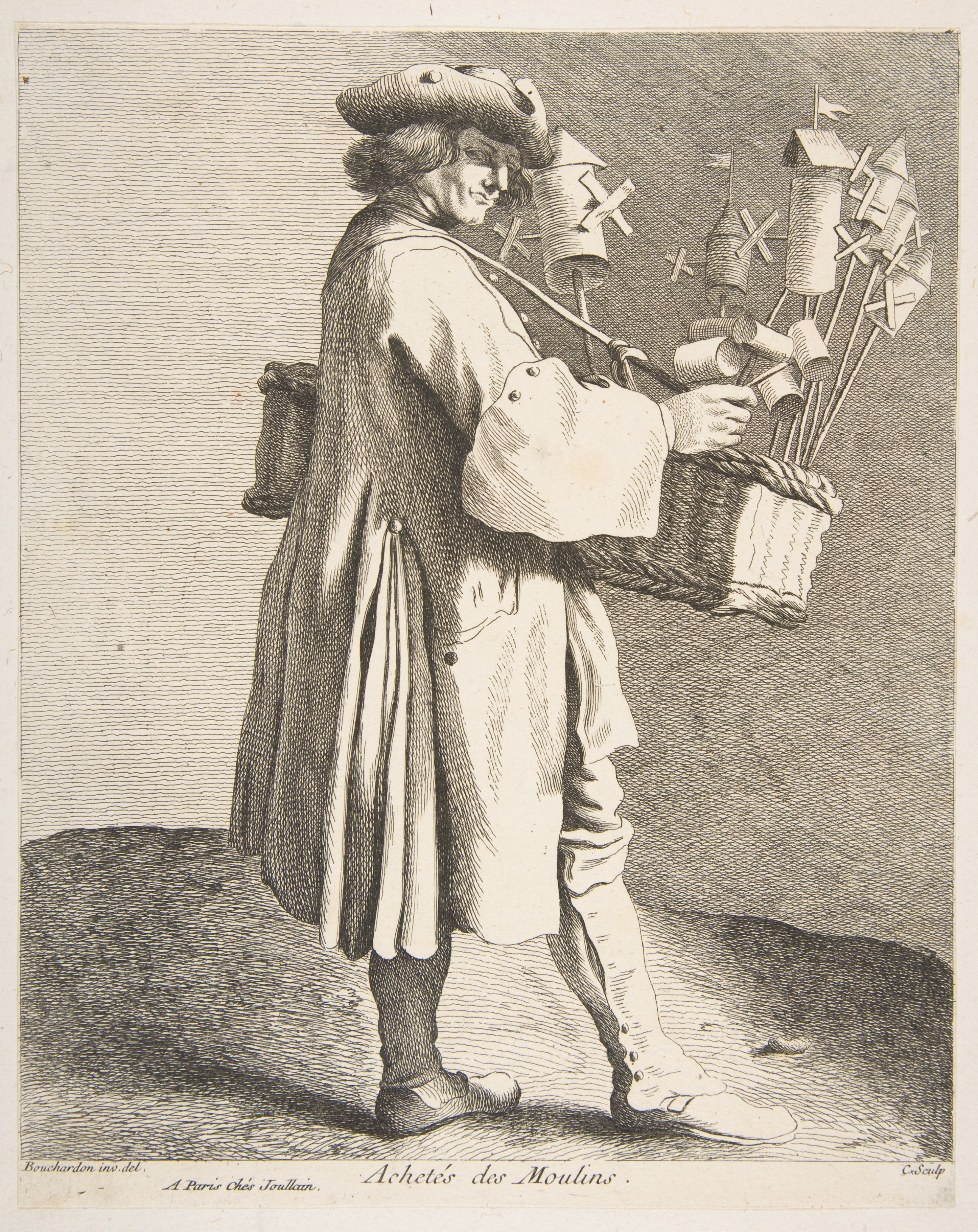 Man seen full-length, turned to the right, selling toy windmills which he carries in a large basket.